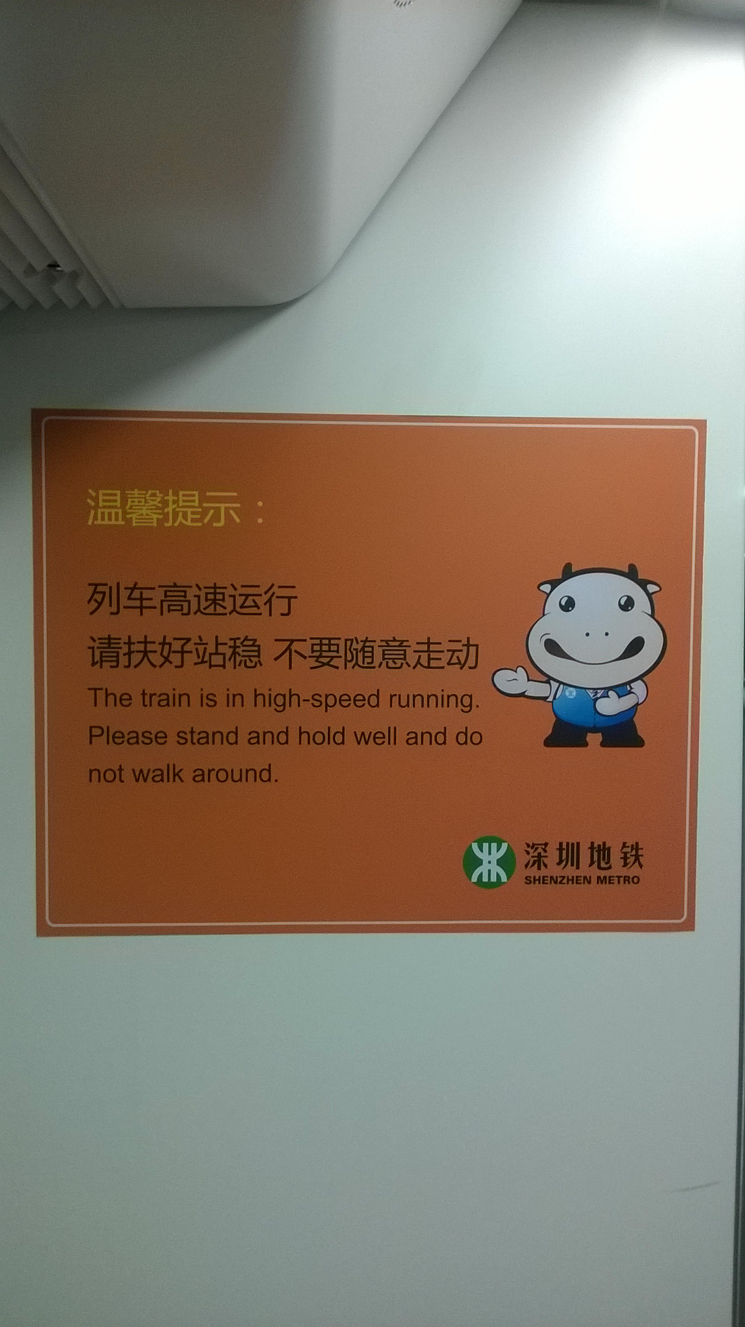 Shenzhen Metro Line 11 - Sign reminding passengers that the trains run at high speeds